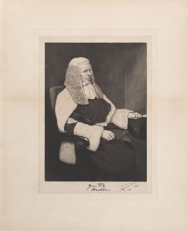 Colin Blackburn, Baron Blackburn (1813-1896)